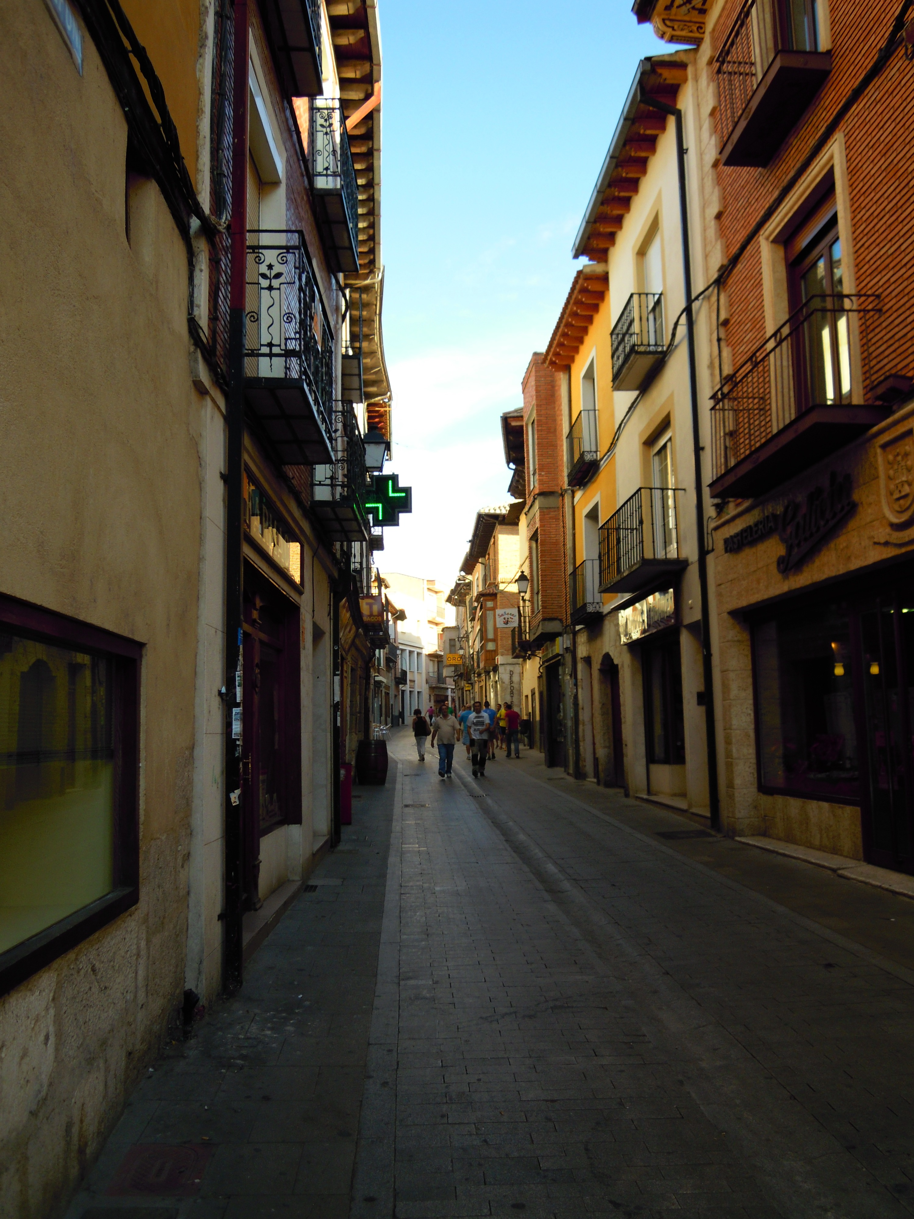 Looking north along the narrow street of Calle Santa María located in the town of Tordesillas and municipality in the province of Valladolid, Castile and León, Spain.